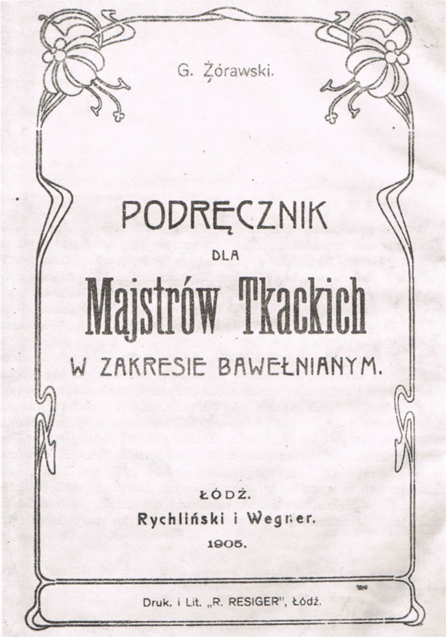 Title page of "Podręcznik dla Mistrzów Tkackich" book by G. Żórawski, publiszed by Rychliński & Wegner, 1905